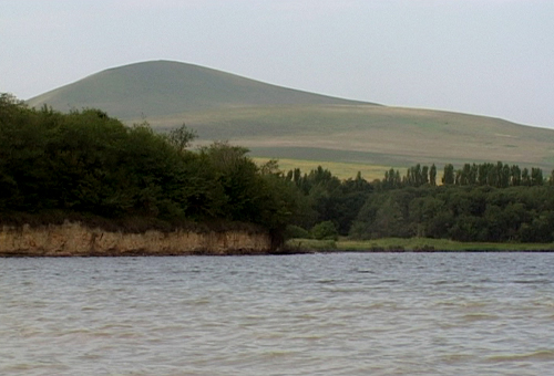 Tambukan Lake in Karachay-Cherkessia Republic of Russian Federation. Photo by Anatoly Terentiev, 9 August 2003.